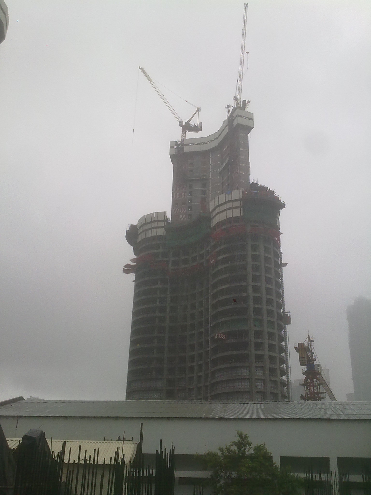 World One tower under construction